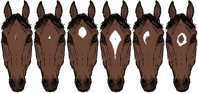 6 different kinds of star